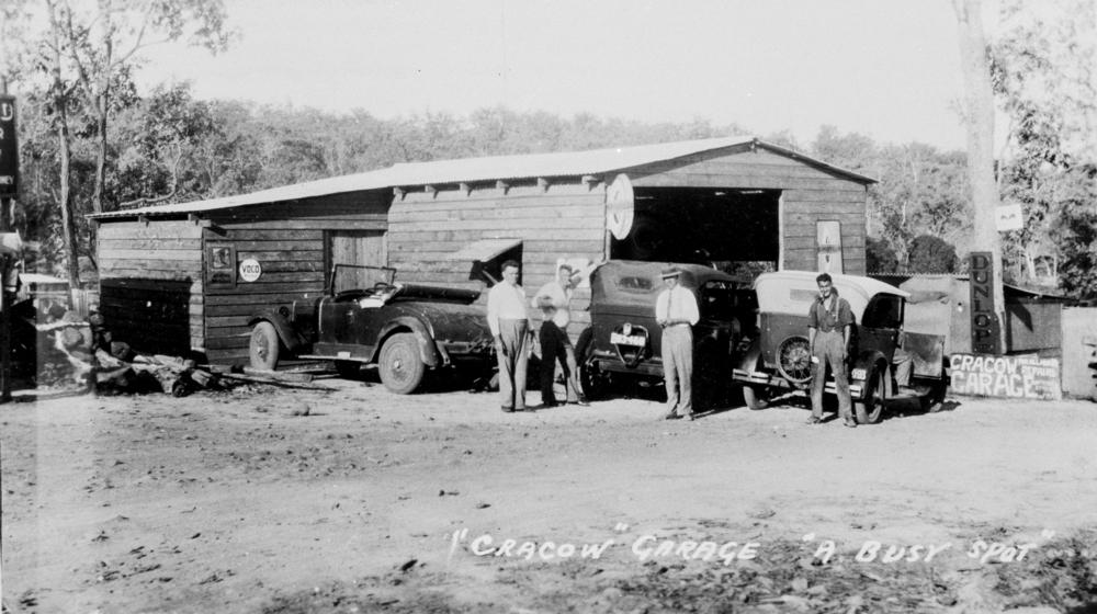 Cracow Garage at Cracow, Queensland, ca. 1932